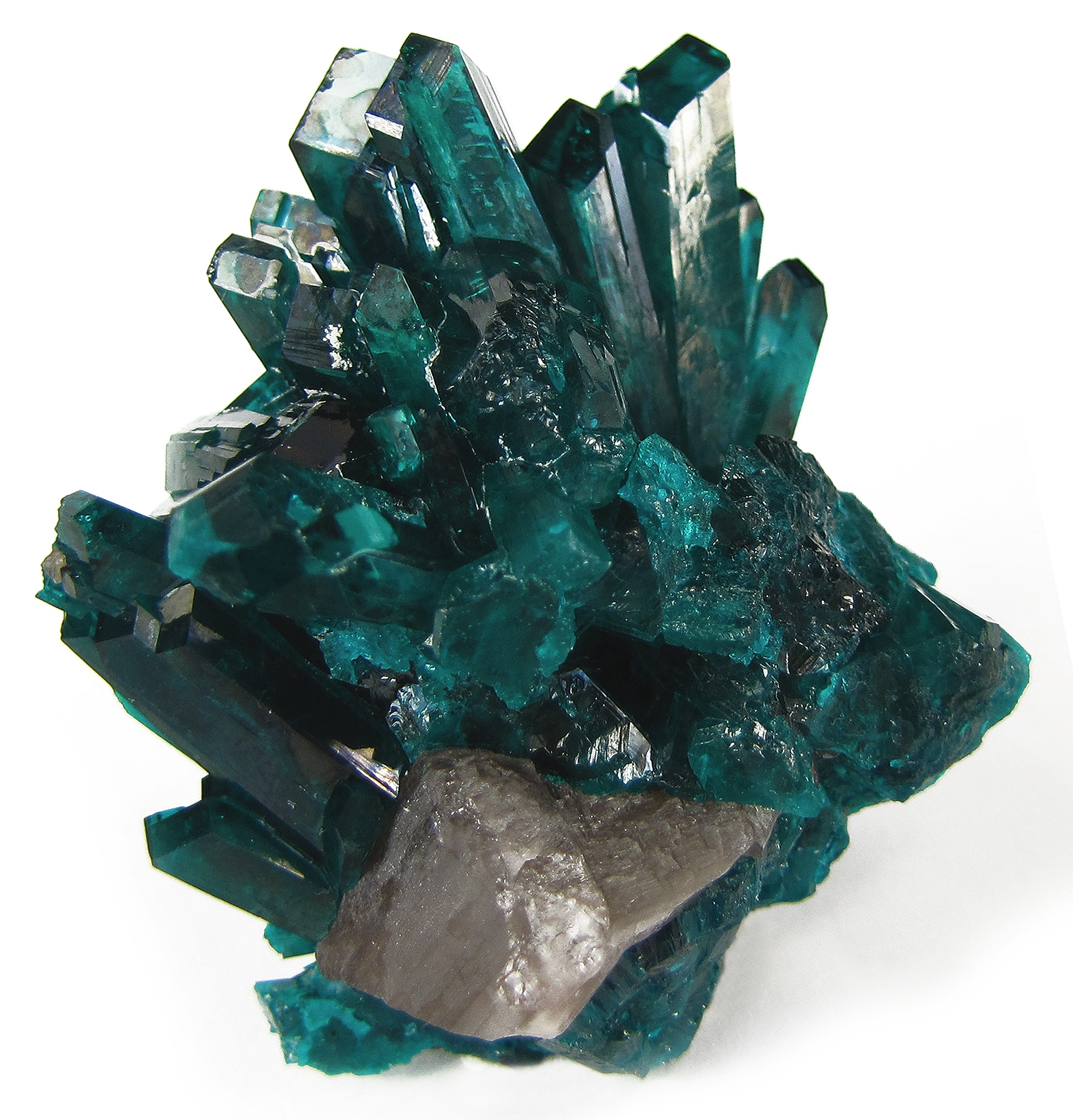 Cerussite, Dioptase Locality: Christoff Mine, Kaokoveld Plateau, Kunene Region, Namibia (Locality at ) Size: miniature, 4.5 x 3.8 x 1.9 cm Dioptase with Cerussite A radial spray of pristine, glowing green , elongated dioptase crystals runs across the top of this flowery specimen. The crystals have the gemminess and transparency of this relatively new mine, which will someday be famous I predict. There is some damage to the massive dioptase knoll on which the radiating vertical crystals sit, but this is "matrix" anyhow and does not bother me visually. The brown, vitreous cerussite crystal in the middle is a nice accent. And, for the quality, they are in some ways even better than Tsumeb yet at a much lower pricepoint for a great specimen (for size of crystal but also gemminess and translucency, surely). If from Tsumeb, you really could add a zero to the price these days.